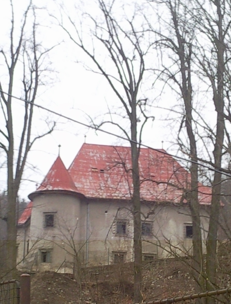 Present condition of the Burg manor house.